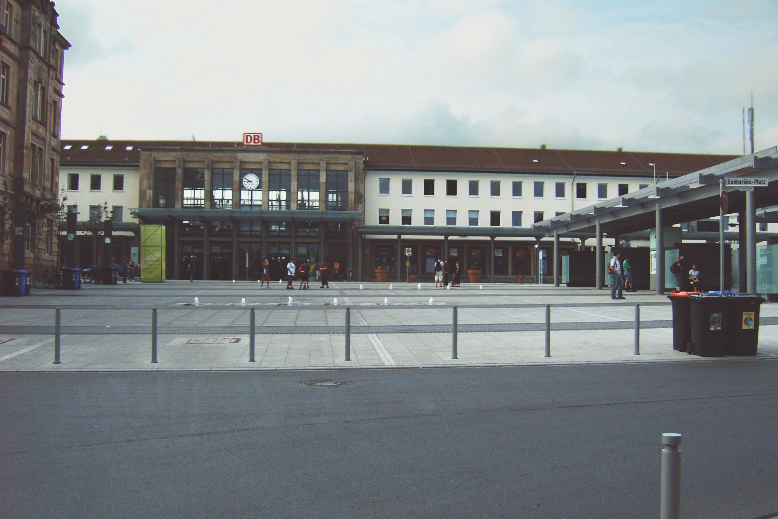 Main train station of Kaiserslautern